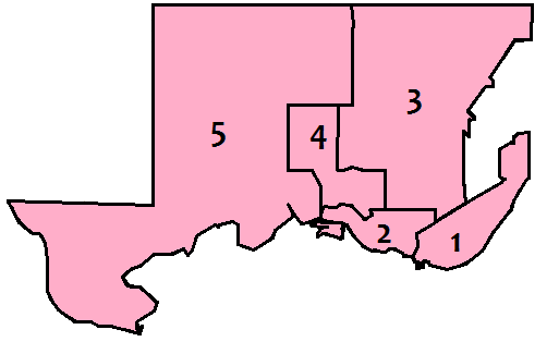 map of Sault Ste. Marie, Ontario's ward map